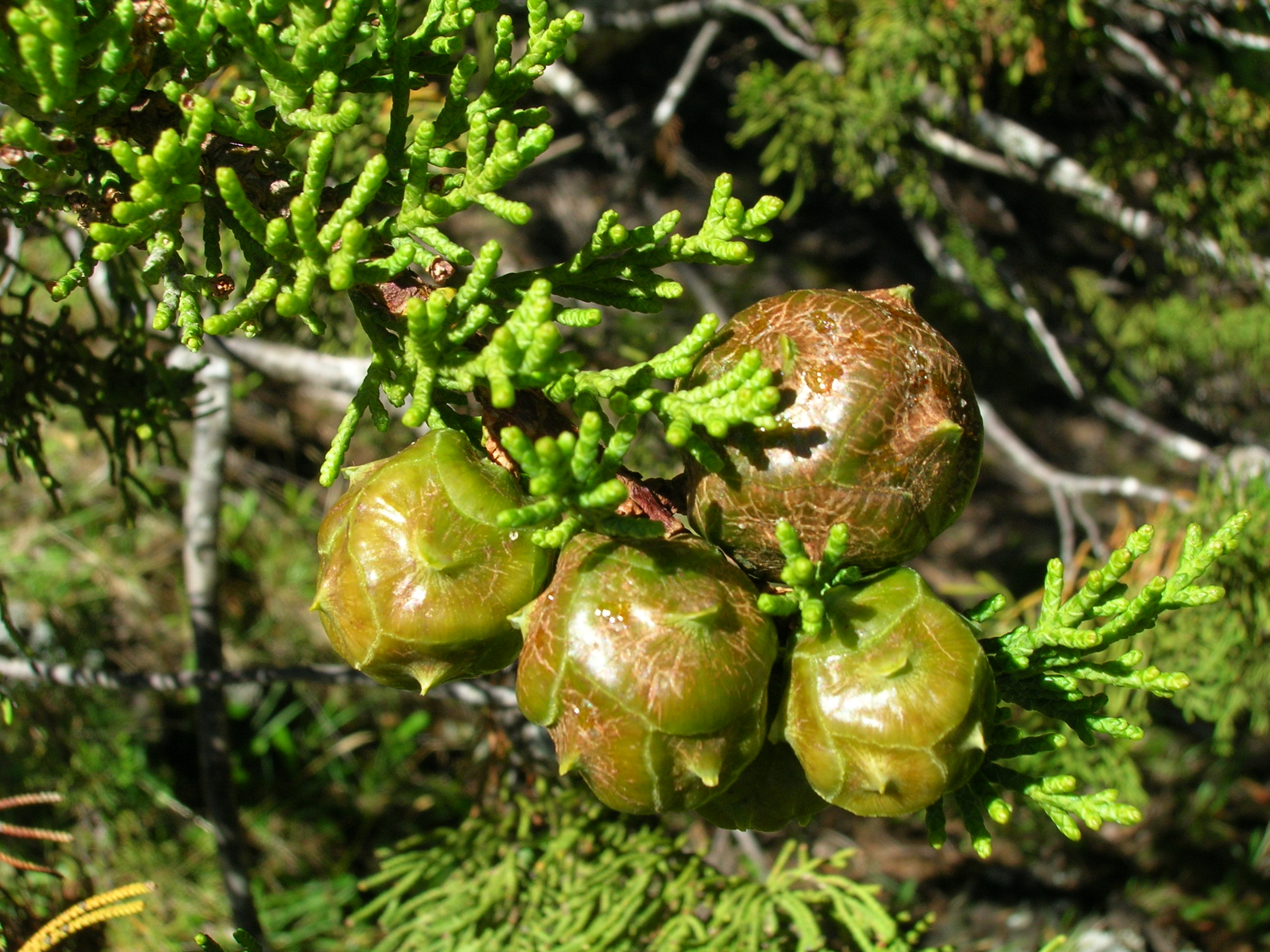 Cupressus macrocarpa (cones). Location: Maui, Kahakapao Gulch